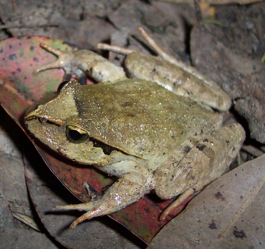 A Lechriodus fletcheri from Ourimbah, NSW. Category:Frog images